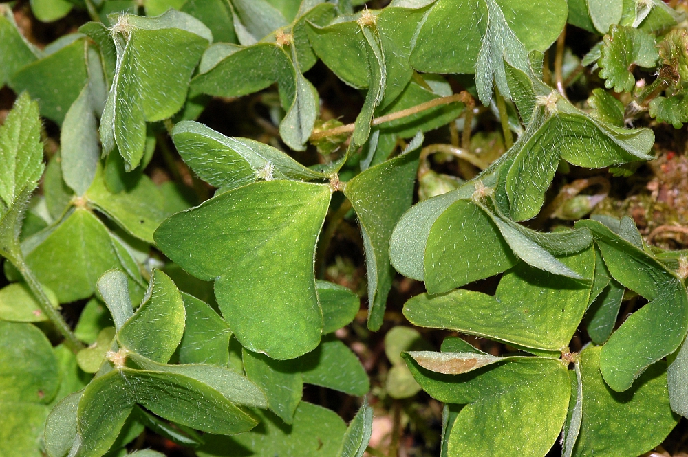 Oxalis acetosella, Mörfelden, Hesse, Germany